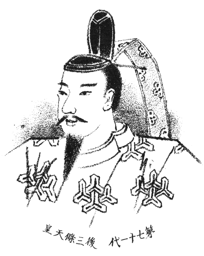 Emperor Go-Sanjō, who was the 71st emperor of Japan